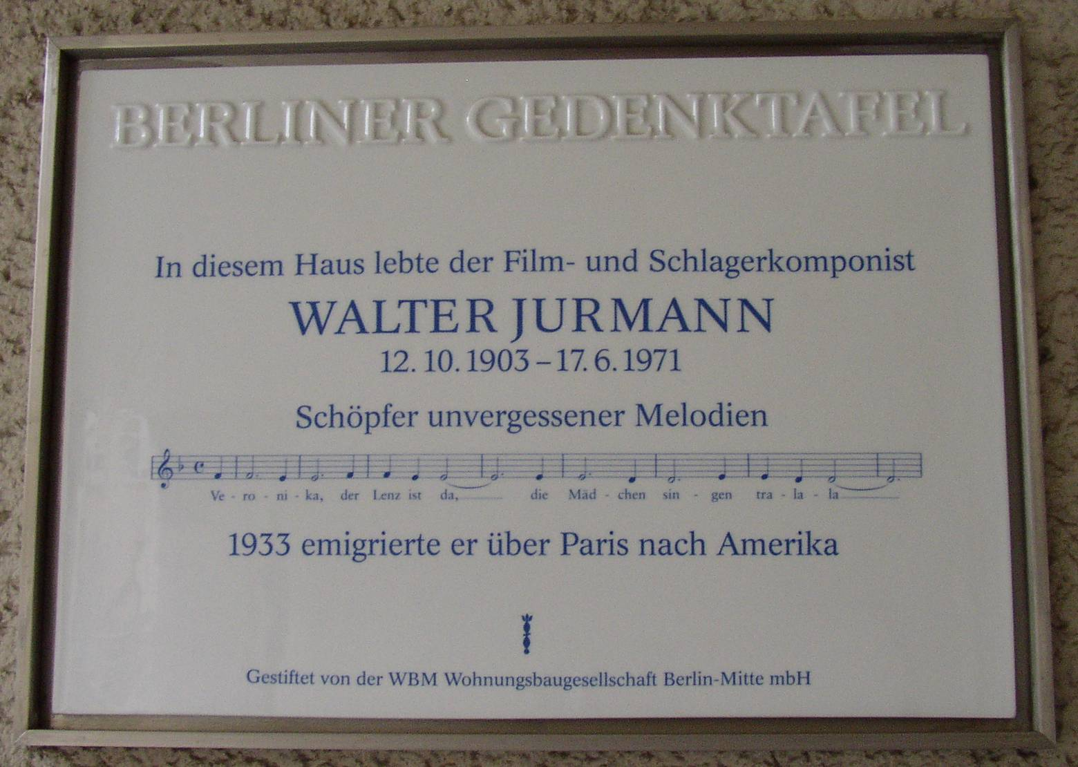 Berlin memorial plaque for Walter Jurmann in Berlin-Wilmersdorf, Germany